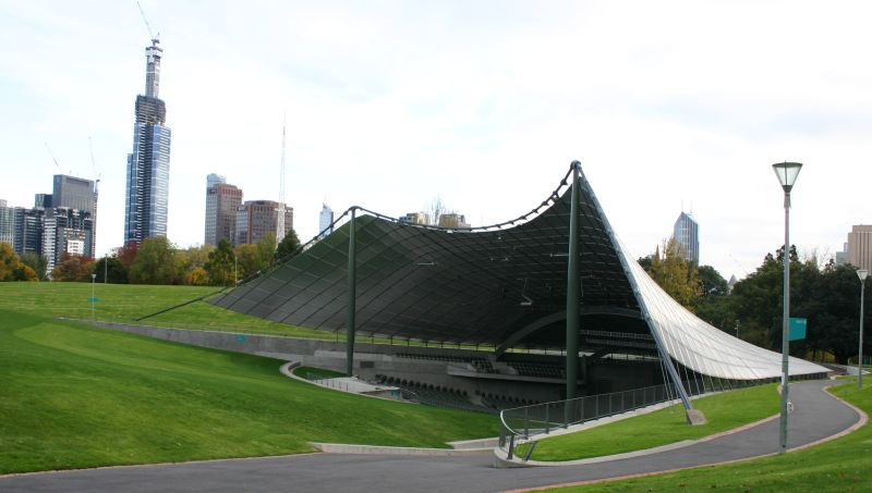 Photo of the Sidney Myer Music Bowl in Melbourne by Takver in May 2005 and released under the GNU GFDL.